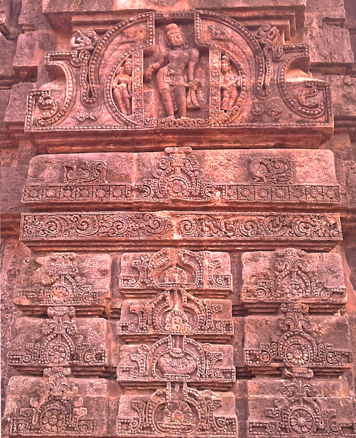 Designed reliefs on a dome at Sri Mukhalingam Temple complex from the time of Eastern Ganga Dynasty